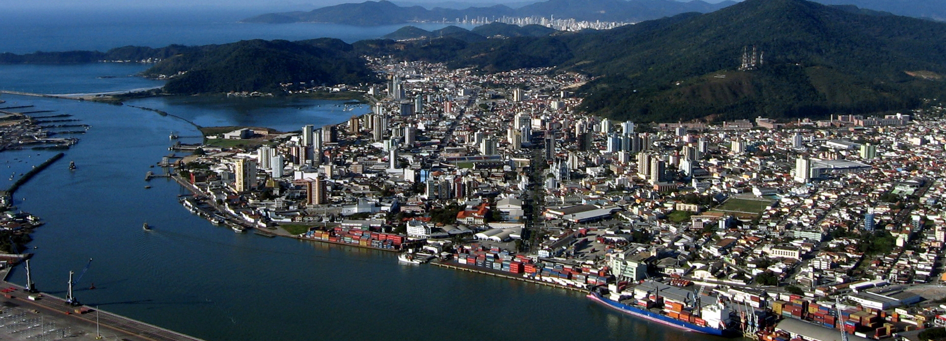 Partial view from Itajai,SC.